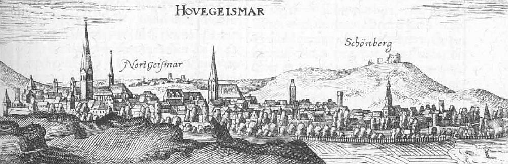 This is a scan of the historical document: Title: Hofgeismar - Topographia Hassiae language: german